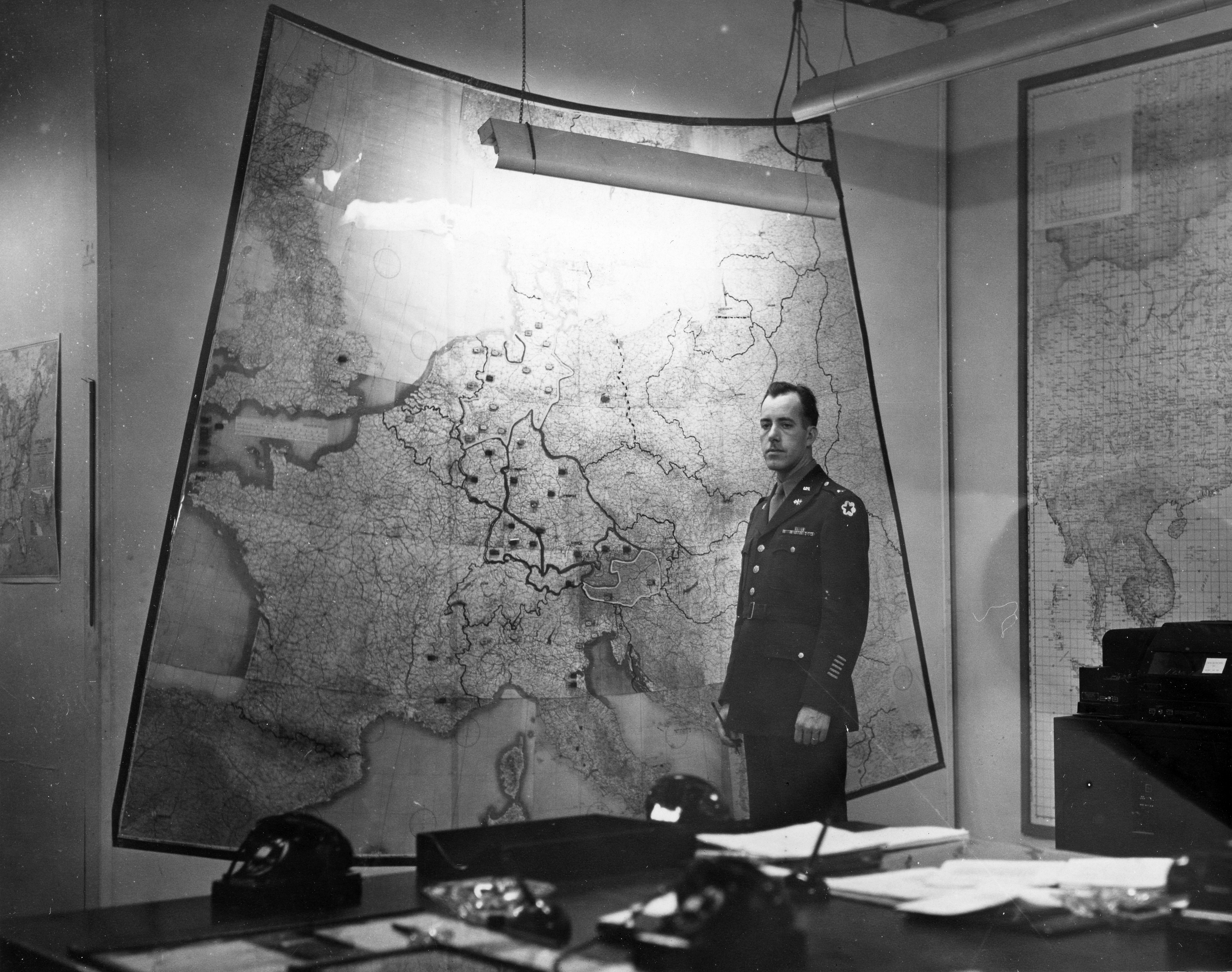 Al Cornelius in the White House Map Room